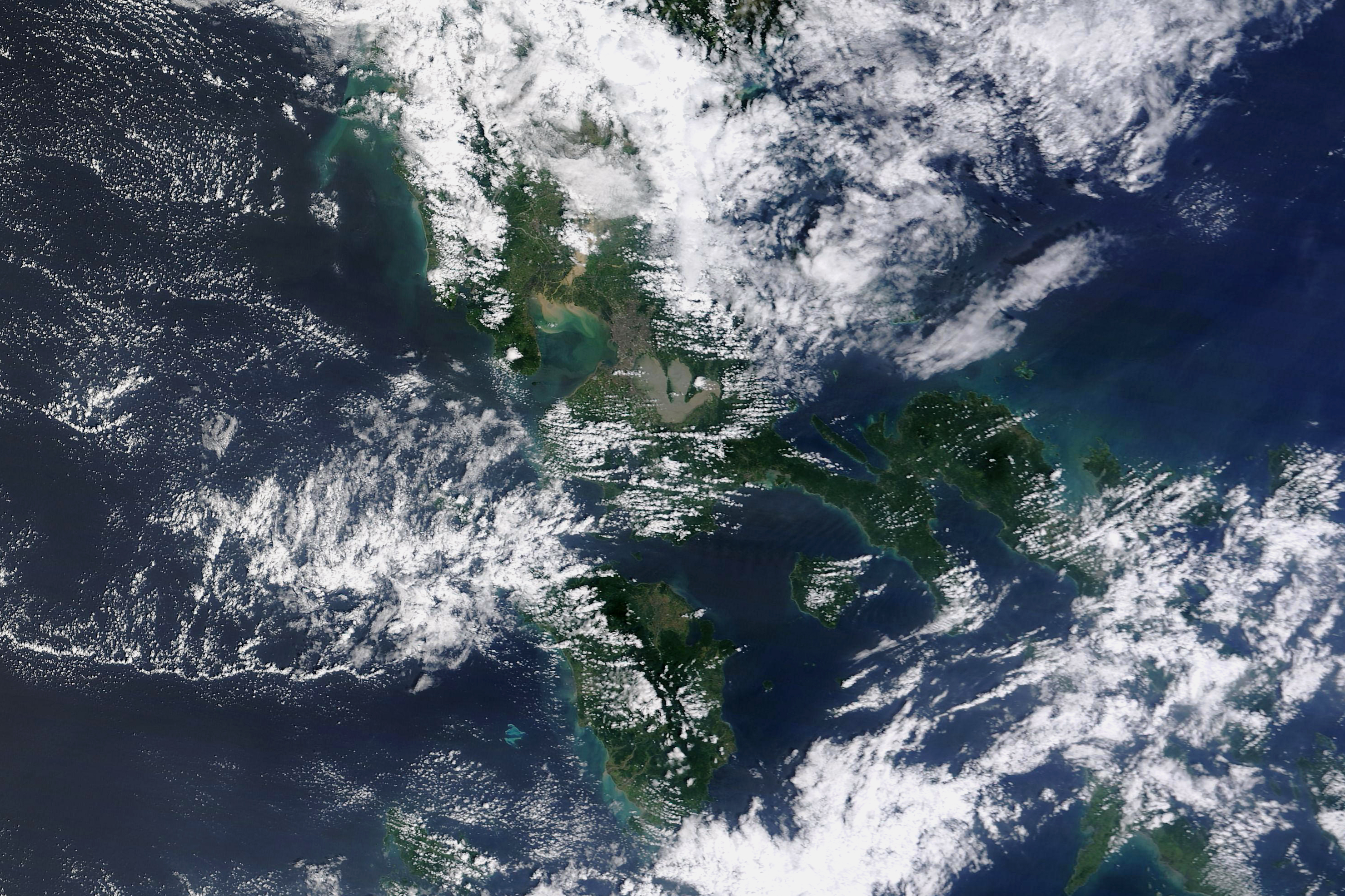 The natural-color image below was acquired on October 21, 2015 by the Moderate Resolution Imaging Spectroradiometer (MODIS) on NASA’s Terra satellite. It shows flooding along the Pampanga River as well as discolored waters where the muddy runoff flushed out into Manila Bay. The mountainous terrain of the island of Luzon often exacerbates the flooding and landslide hazards from storms. The outer edges of Koppu began encroaching on The Philippines on October 16, and the category 4 super typhoon made landfall on the island of Luzon on October 18 with winds of 130 knots (150 miles or 240 kilometers per hour). The storm then slowly tracked northward, turning east again on October 20. As of October 21, the remnants of the storm were lingering just north of Luzon in the South China Sea. (Note: The storm is called Lando in The Philippines, which has its own naming system.)